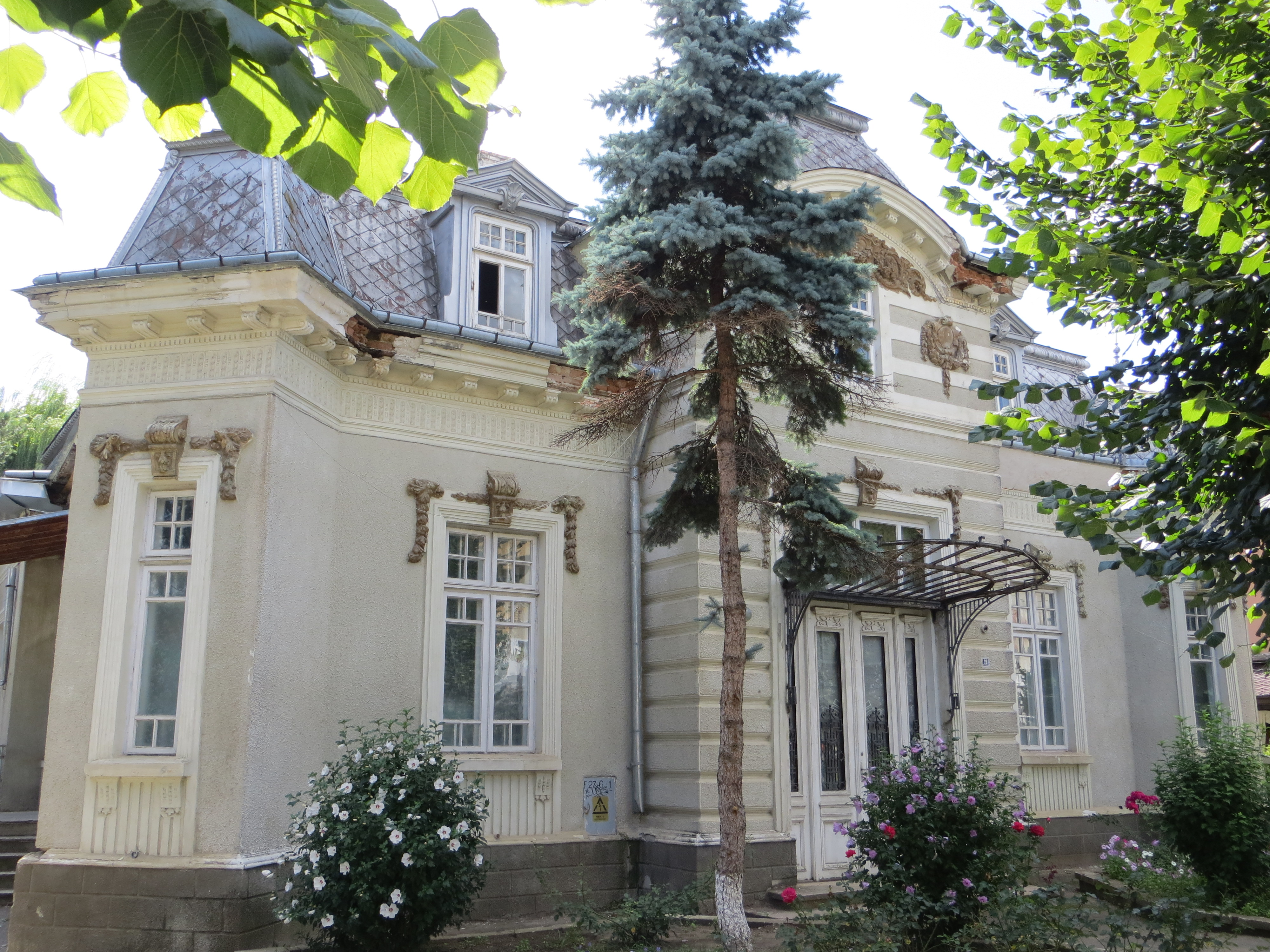 Children's House, Fălticeni, Suceava County, Romania.